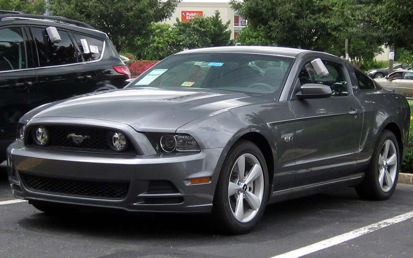 2013 Ford Mustang photographed in Falls Church, Virginia, USA.